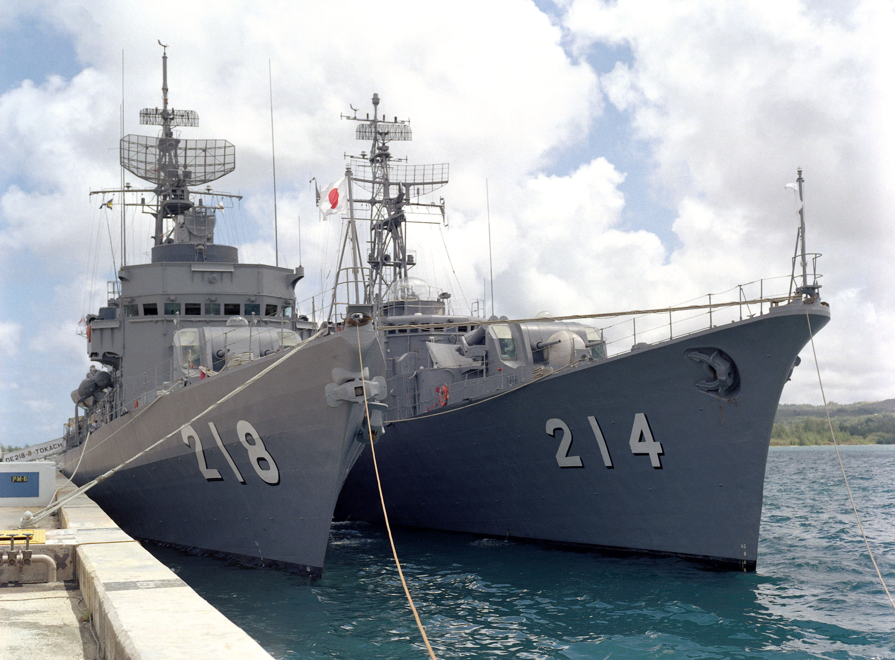 Starboard bow view of the Japanese frigates Tokachi (DE-218), left, and Ōi (DE-214) moored in Apra Harbor.